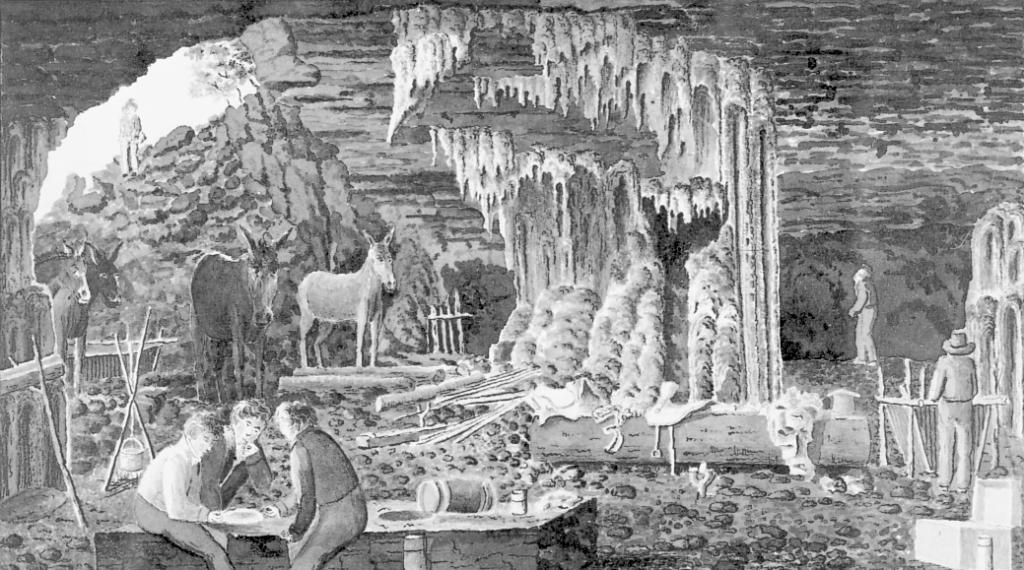 The Danish palaeontologist Peter Wilhelm Lund at work in a limestone cave in Brazil, depicted by the painter P.A. Brandt who assisted him as an illustrator. The cave is Lappa do Mosquito located near Lagoa Santa